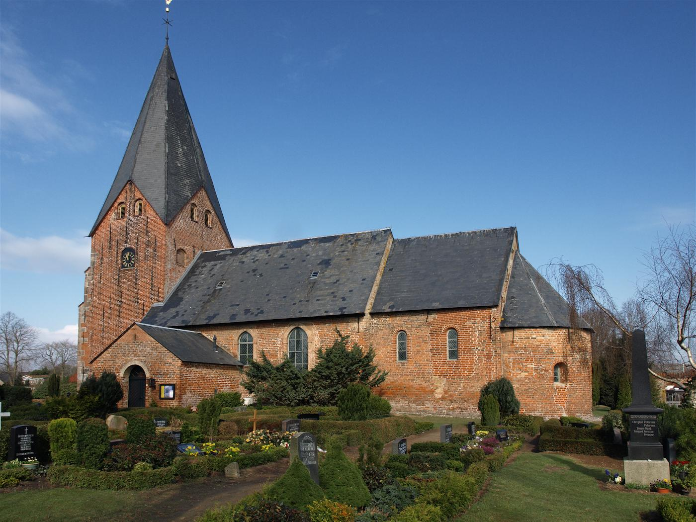 Boel, Schleswig-Holstein (Germany), Church St. Ursula, photo 2011